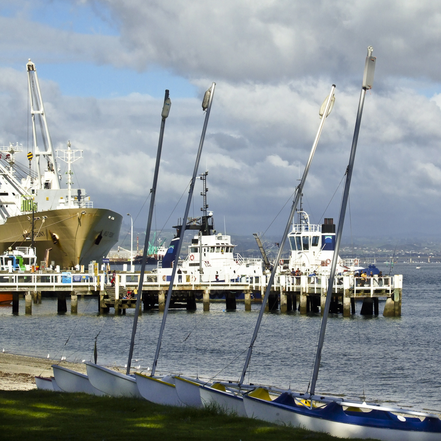 View of the Port of Tauranga, taken from Pilot bay.